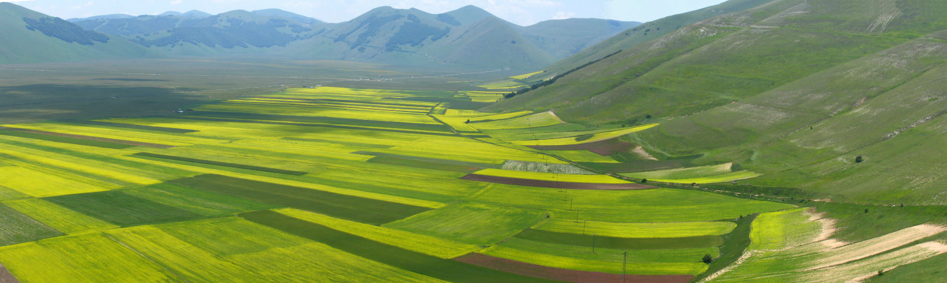 Piani di Castelluccio, seen from Castelluccio (Norcia). Look it Large (1024 x 307) or Original (1900 x 569)